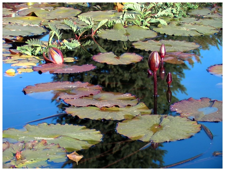 Water garden with lilies. Broadmoor Hotel, Colorado Springs, Colorado (October 2006). Photo by Peter Rimar.